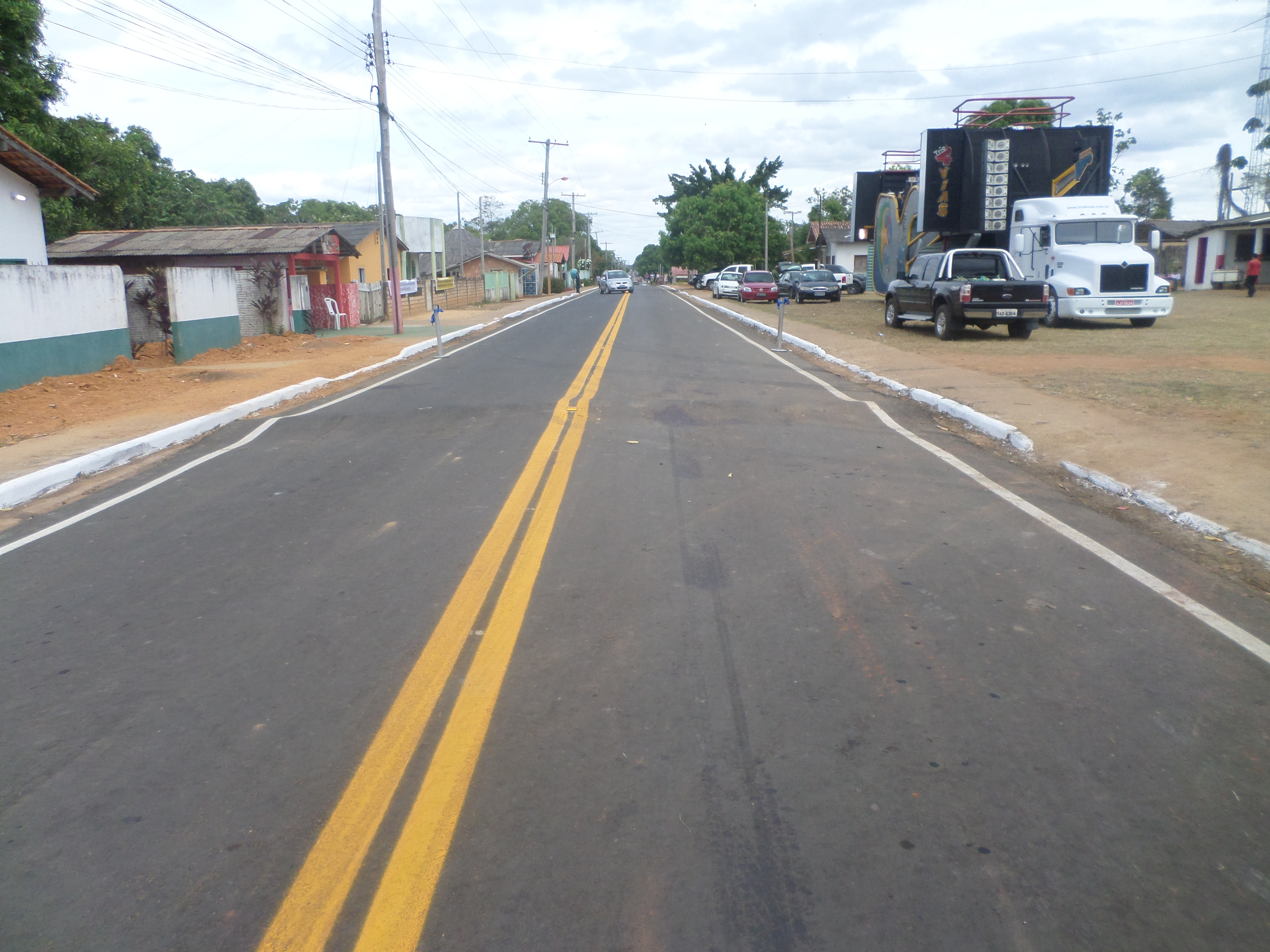 São Francisco Village